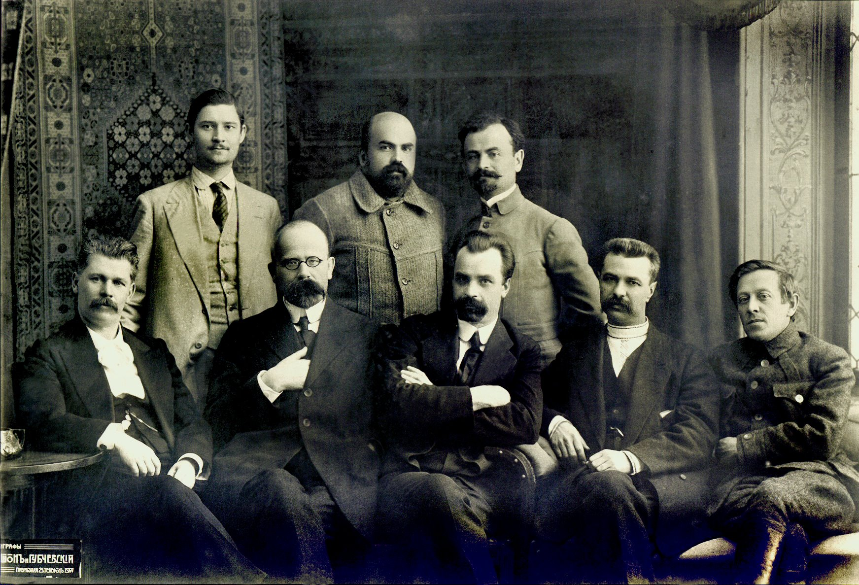 First membership of General Secretariat of Ukraine.